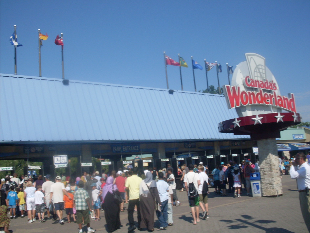 The main entrance of Canada's Wonderland in Vaughan, Ontario, Canada, featuring Canadian provincial flags.